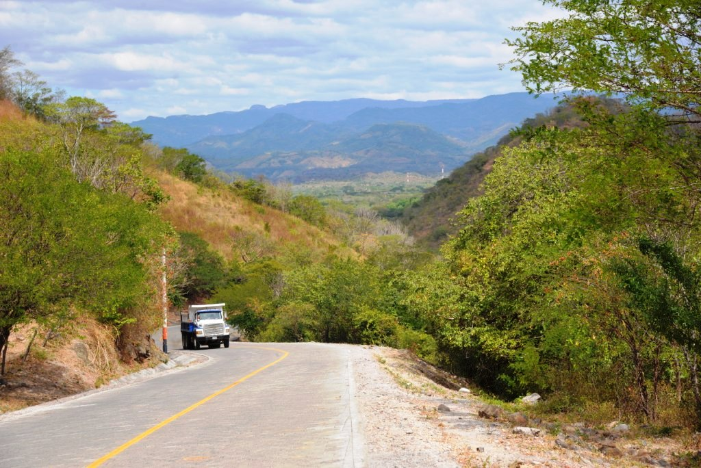 Camión en la carretera desde Santa Roas del Peñón a El Jicaral, Nicaragua.